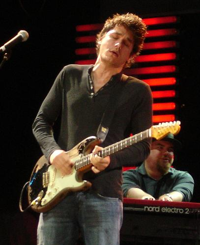 John Mayer performing at the Crossroads Guitar Festival 2007